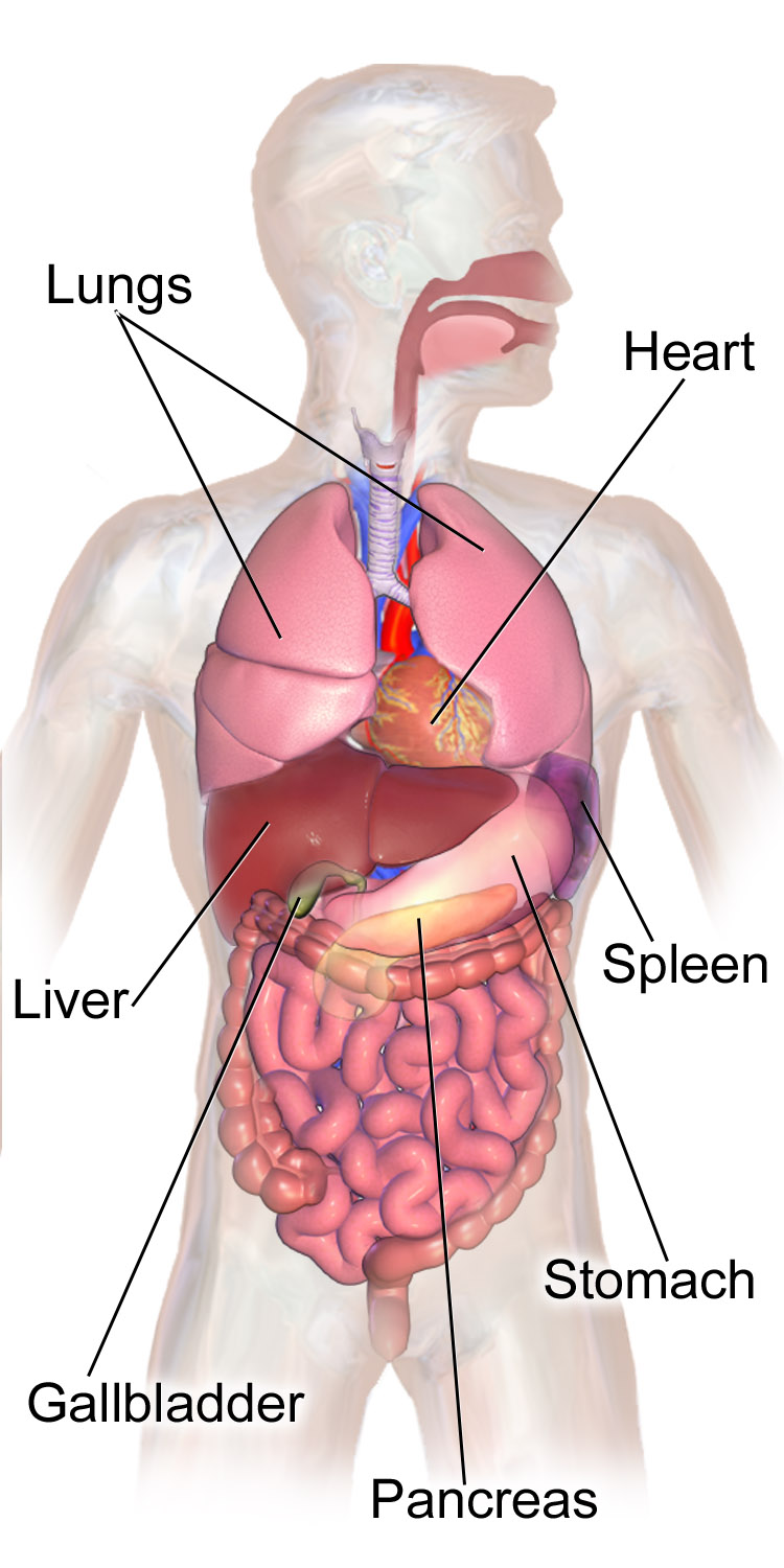 Abdominal Organs Anatomy. Animation in the reference.[1]